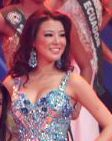 Miss Earth 2007 Candidates